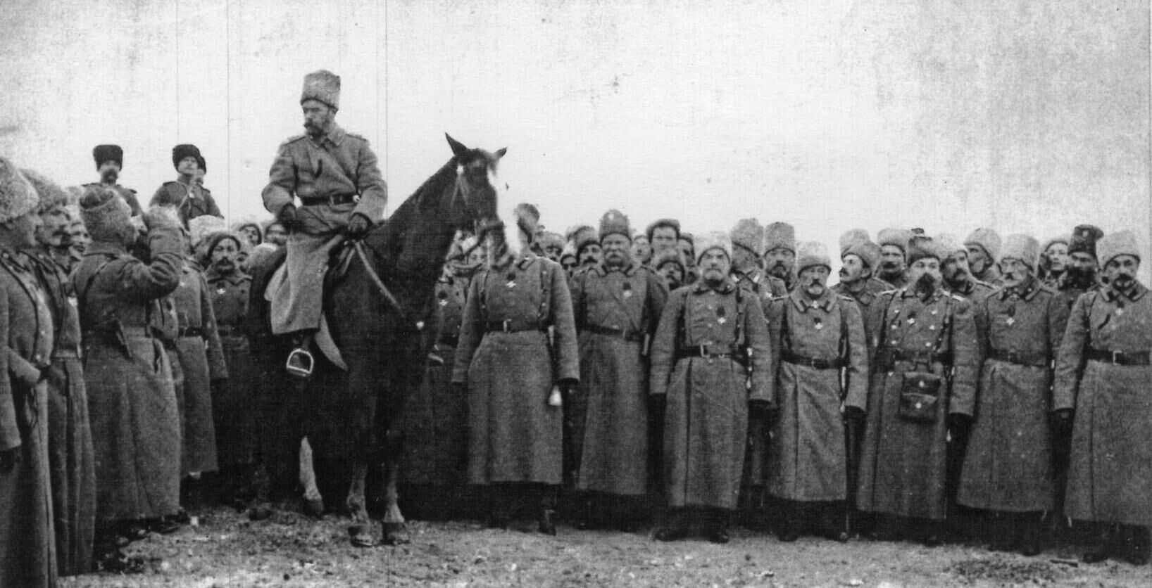 This is a unique photograph taken most probably in Zhitomir around the year 1916 by Teodor Savvatiyevich Mozarowski, press-officer in the Russian Army. Emperor Saint Nicolai II has just arrived. Standing as 3rd from the right hand side is general Mozarowski.